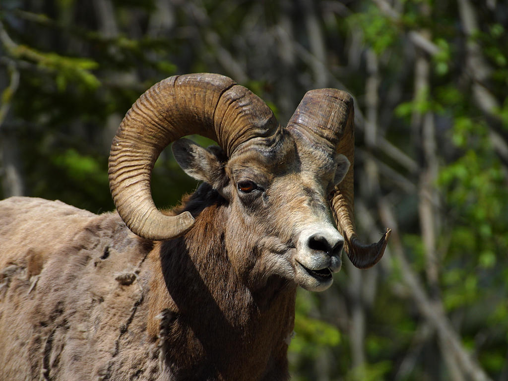 Rocky Mountain Bighorn Sheep